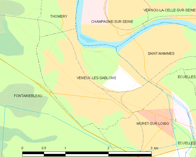 Map of French municipality Veneux-les-Sablons